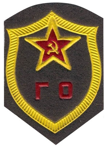 Emblem of the soviet armed forces 1960 to 1991, Soviet Army (military branches, service branches or armed services), sleeve badge (appliquéd) right hand upper arm (dress uniform/ parade uniform) to be used for the ranks OR1 to 8, and WO1 to 2, here: – “Communications troops and Radar support troops”, design 1985.